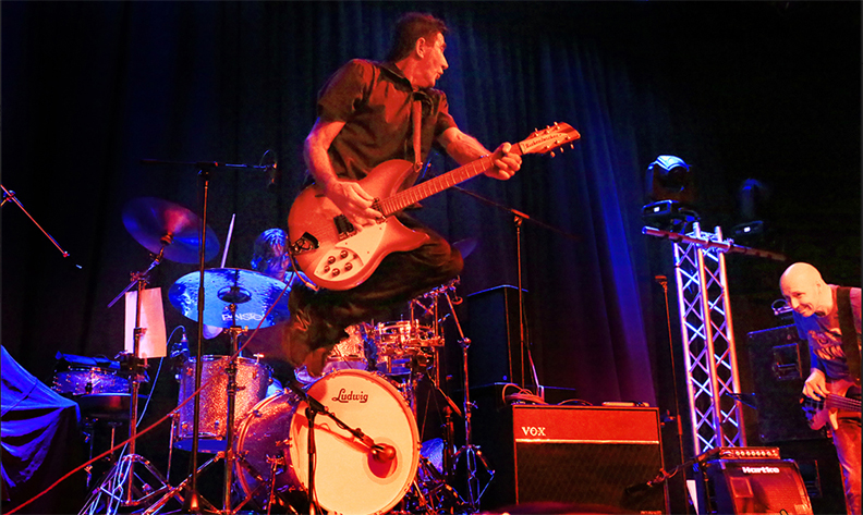 Urban Guerillas in action at Dee Why RSL 2016 pic snapped by Alec Smart